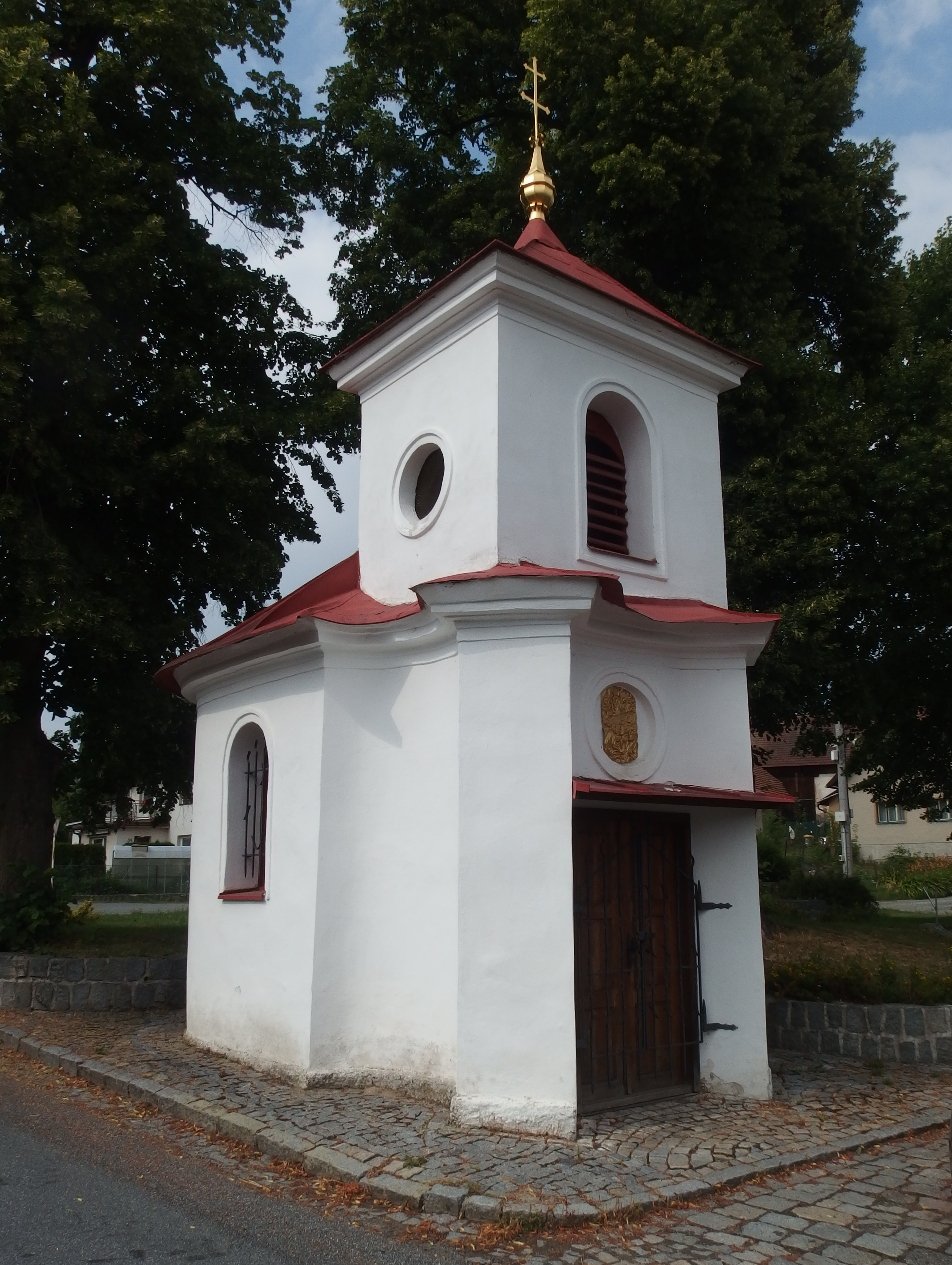 Rozsochy, Žďár nad Sázavou District, Czechia, part Kundratice.